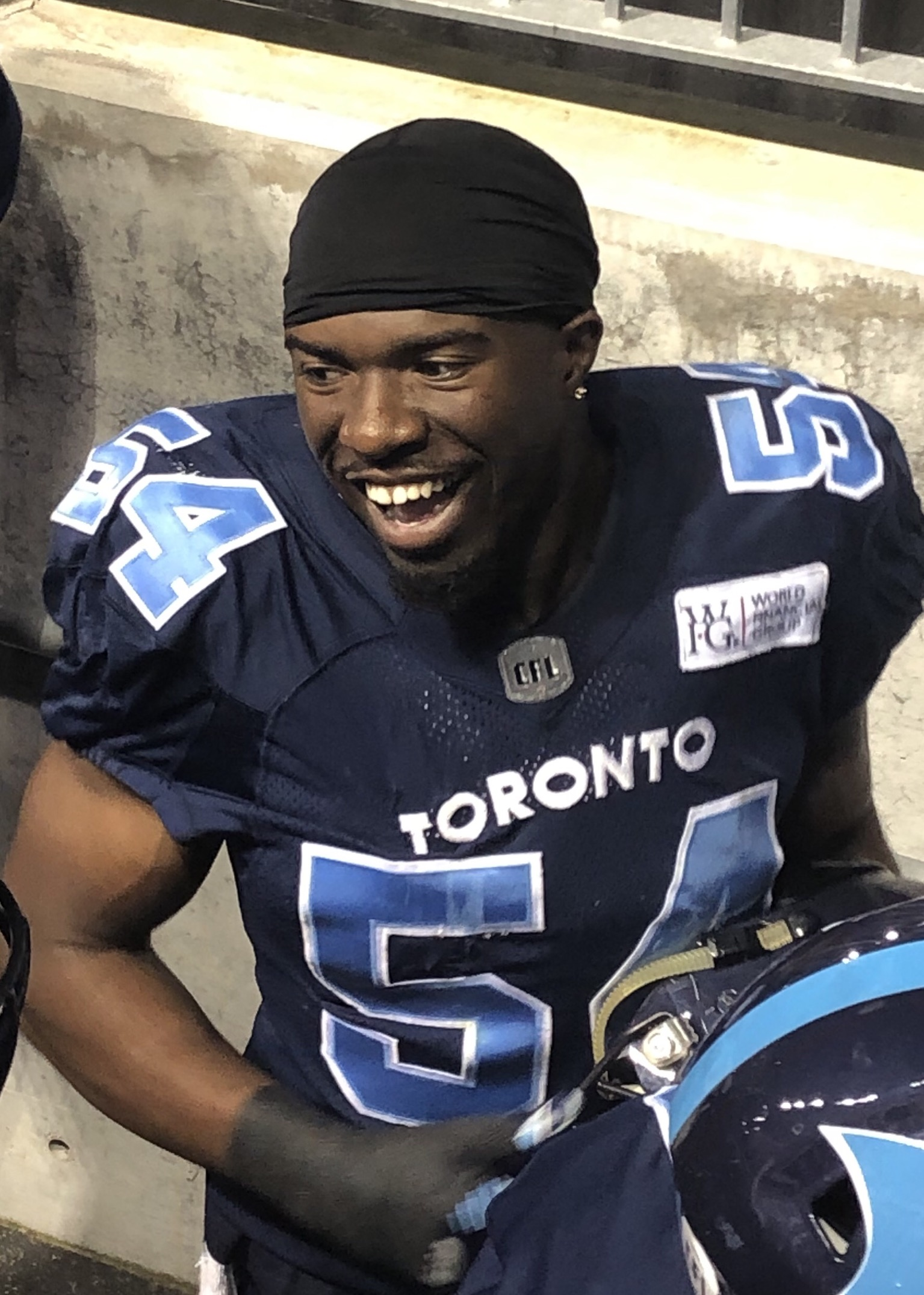 Kennan Gilchrist, defensive lineman for the Toronto Argonauts.